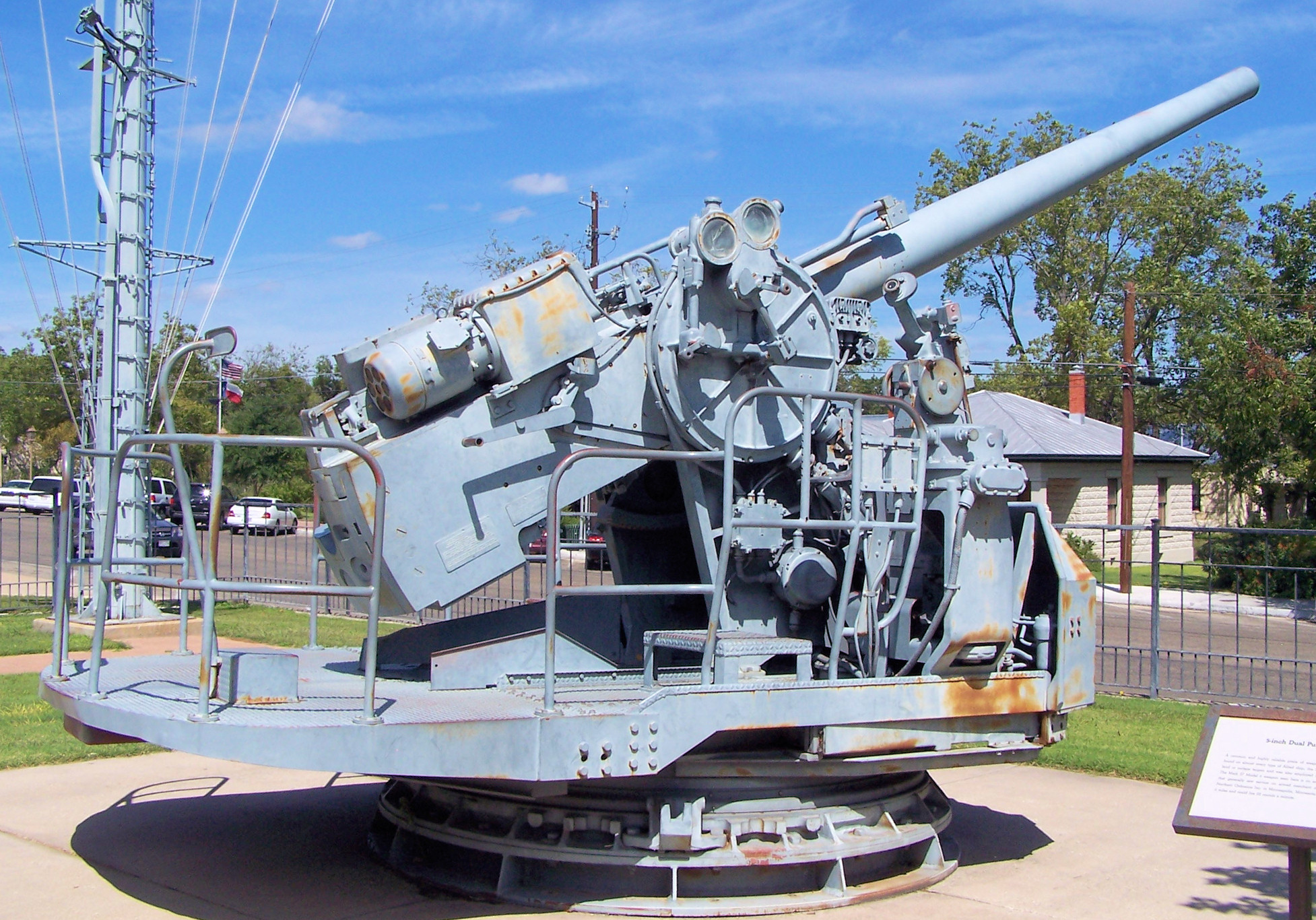 The Mark 37 Model 6 5-inch dual purpose gun on display at the National Museum of the Pacific War in Fredericksburg, Texas, United States. The gun had a range of over 6 miles and could fire 22 rounds a minute.